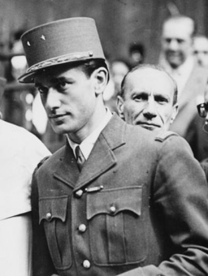 Jacques Chaban-Delmas (1915-2000), general of the Free French Forces in 1944, further Prime Minister